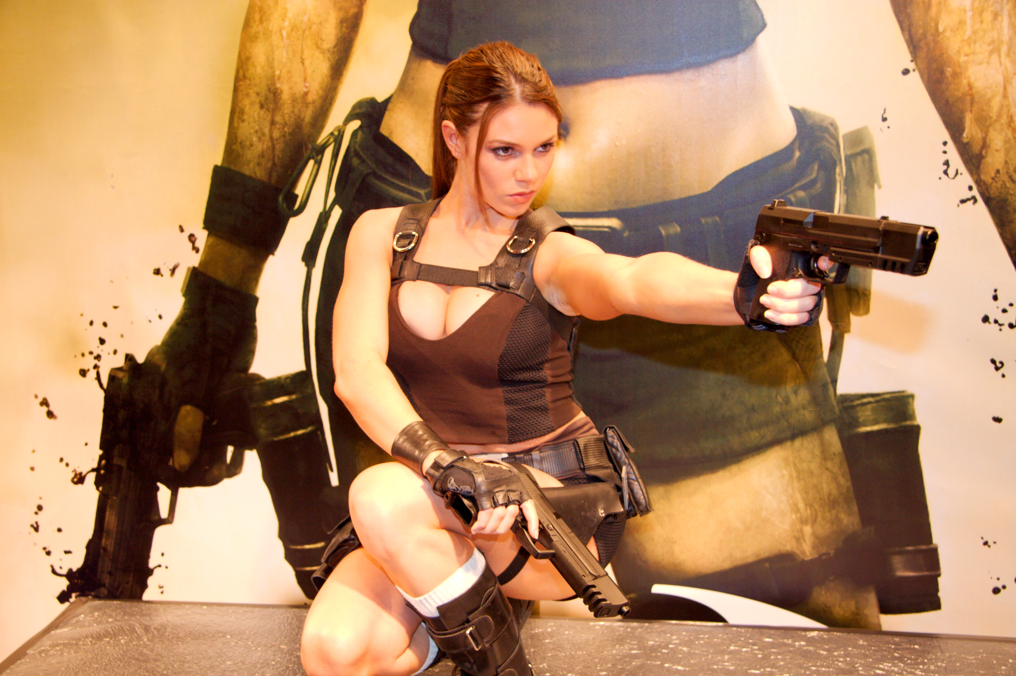 Alison Carroll, the official Lara Croft model for Tomb Raider: Underworld at Festival du jeu vidéo 2008 (Paris, France).